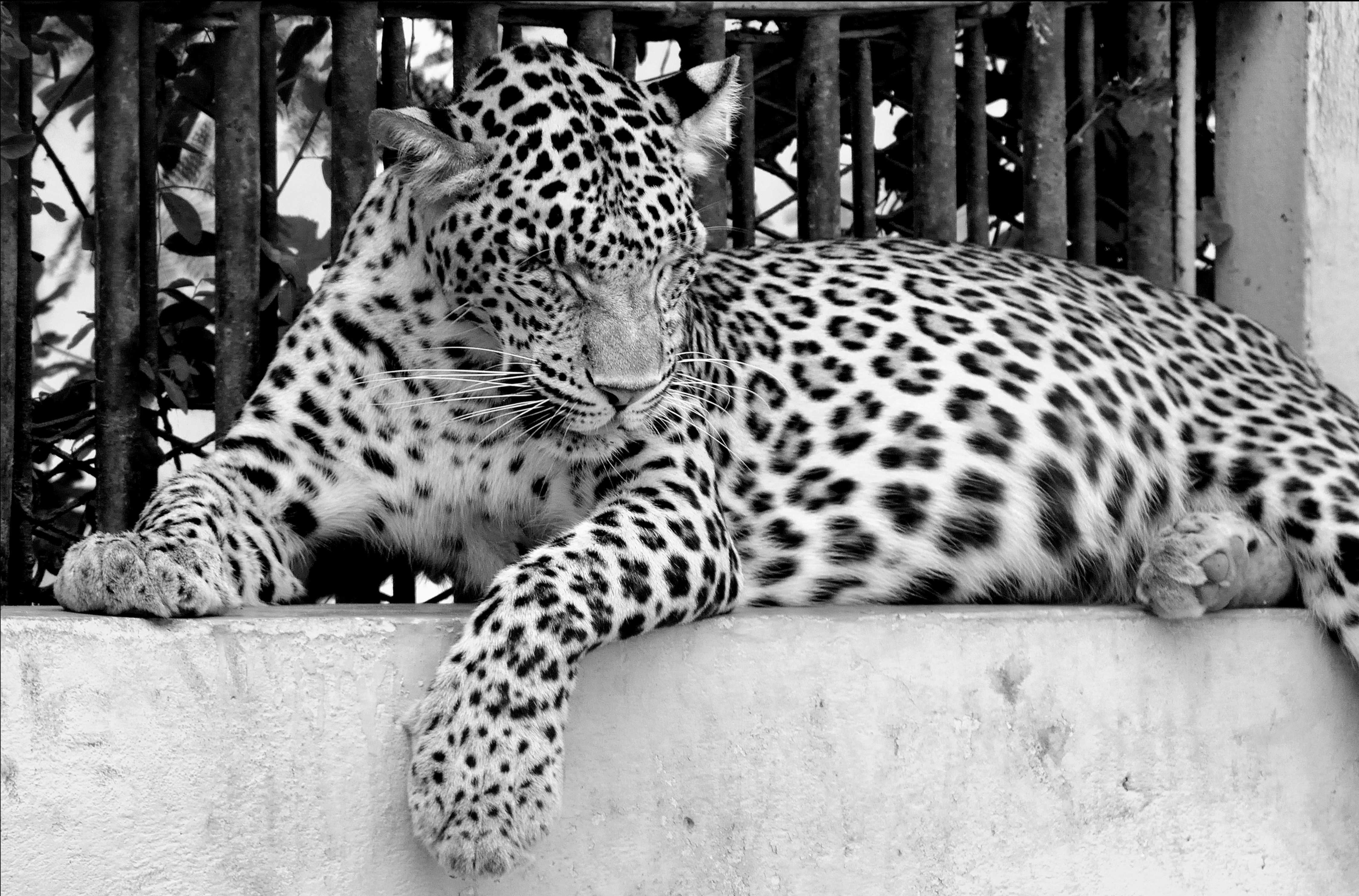 The Indian leopard (Panthera pardus fusca) is a leopard subspecies widely distributed on the Indian subcontinent and classified as Near Threatened by IUCN since 2008. The species Panthera pardus may soon qualify for the Vulnerable status due to habitat loss and fragmentation, heavy poaching for the illegal trade of skins and body parts in Asia, and persecution due to conflict situations. They are becoming increasingly rare outside protected areas. The trend of the population is decreasing.